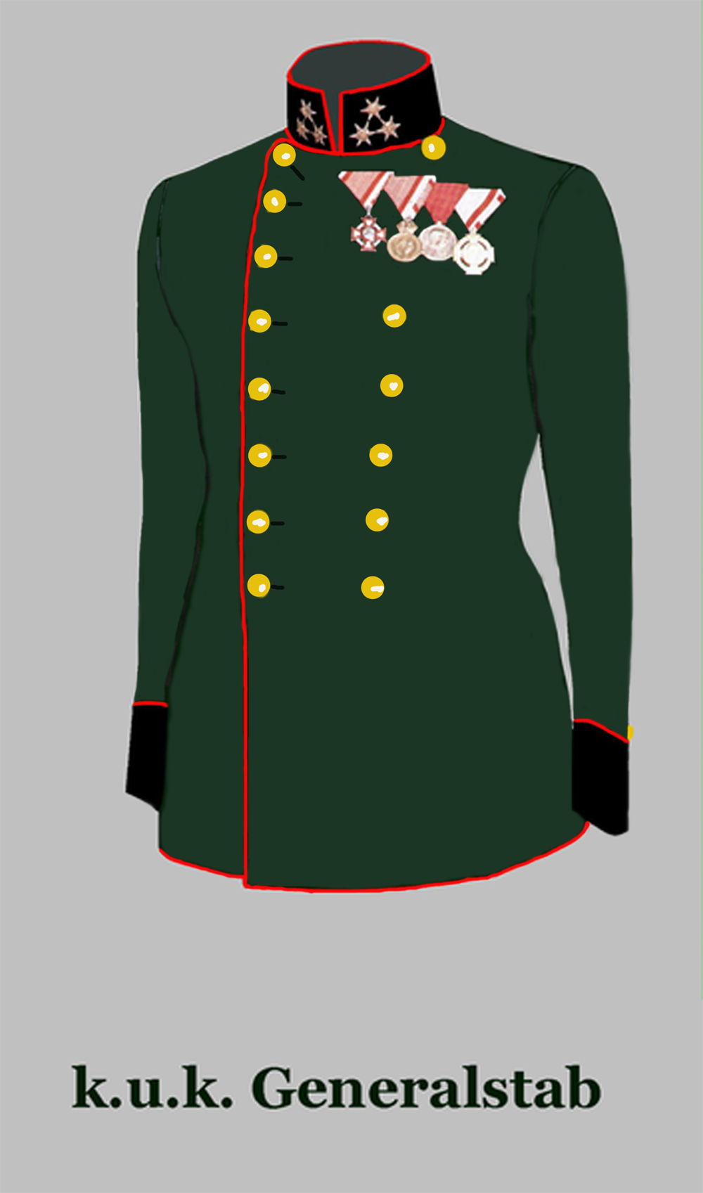 Tunic of an Captain of the Austria-Hungarian k.u.k. Headquaters-Office